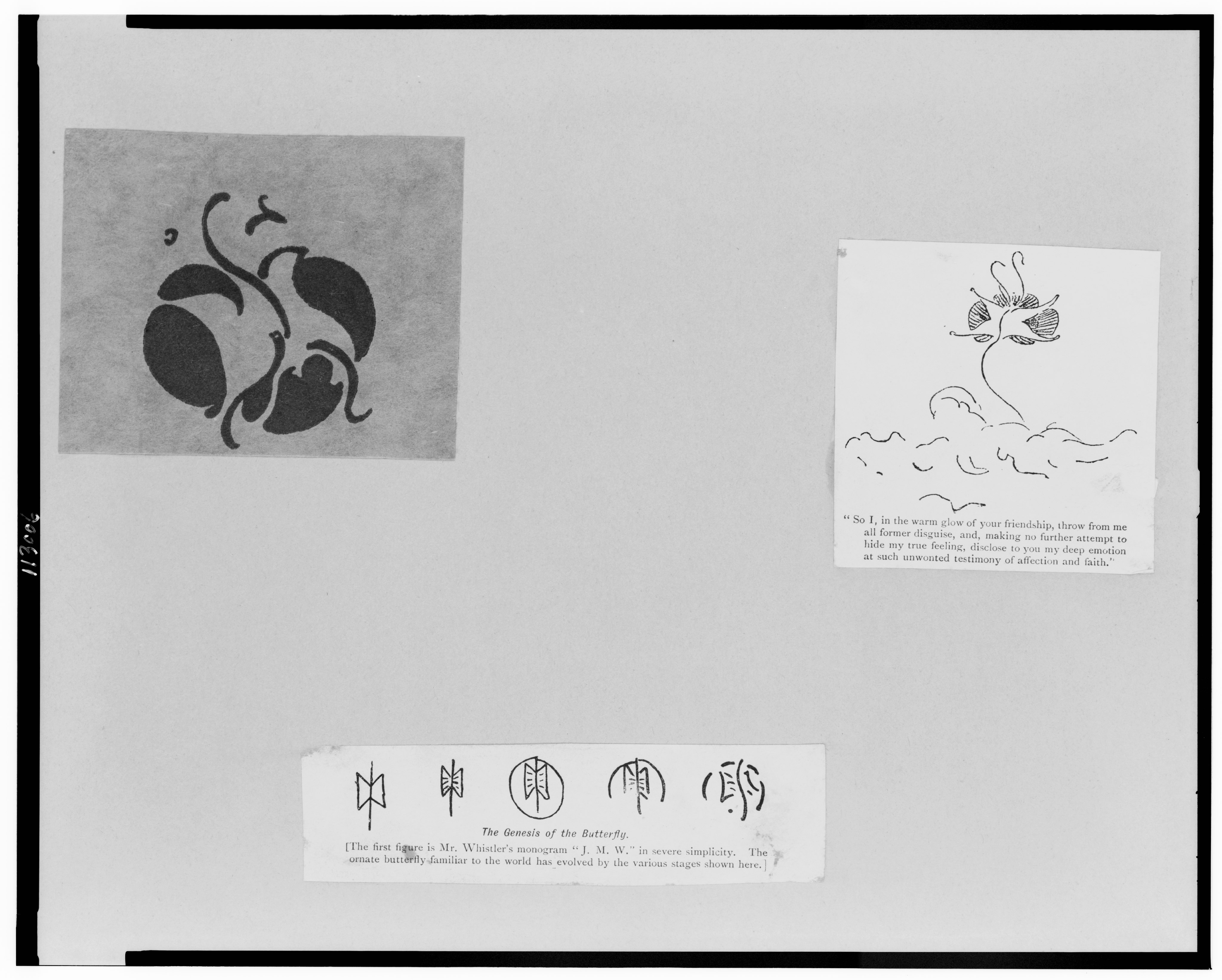 Title: Whistler's butterfly signatures Abstract/medium: 3 prints.